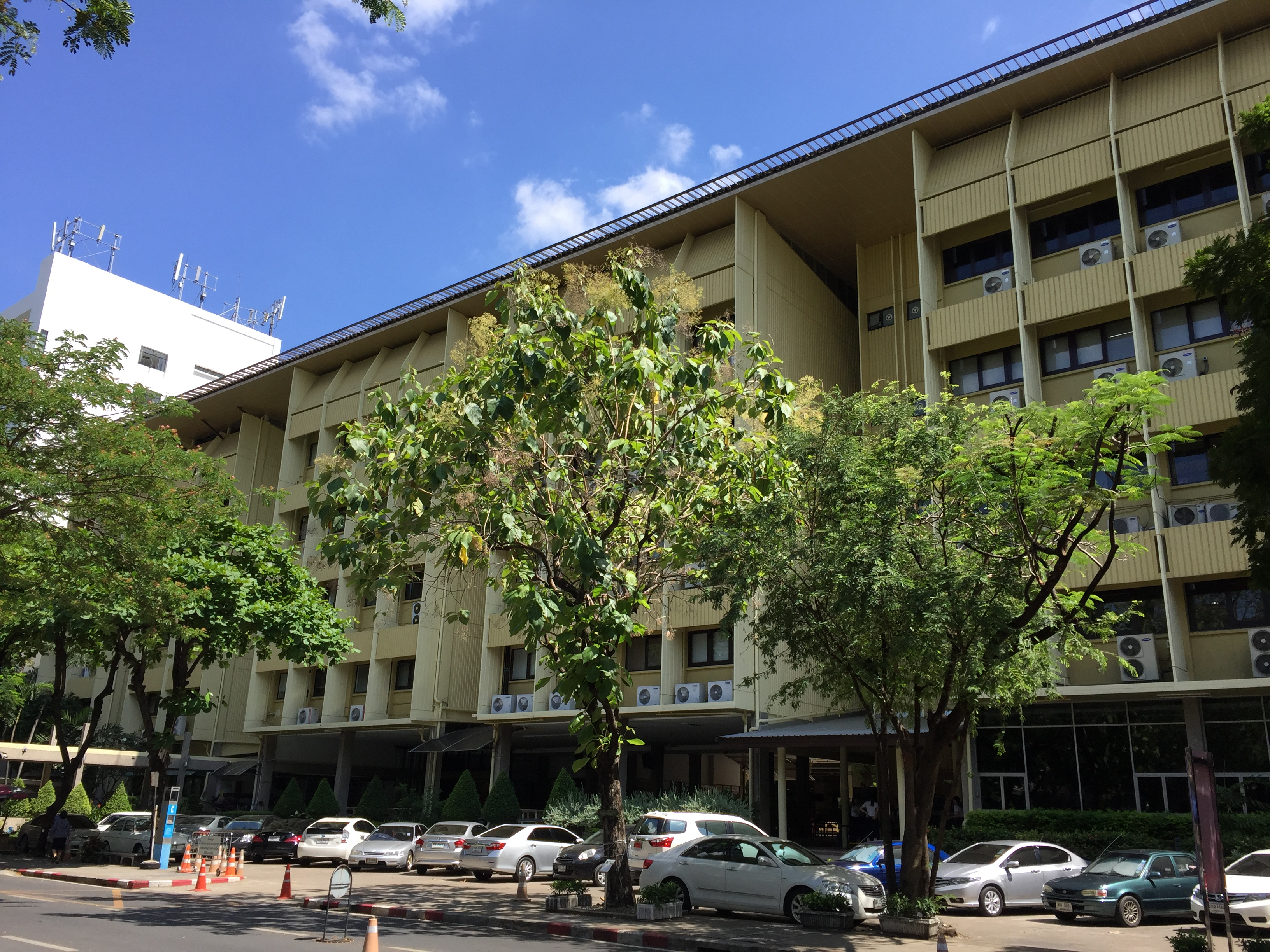 The Faculty of Economic building in Chulalongkorn University